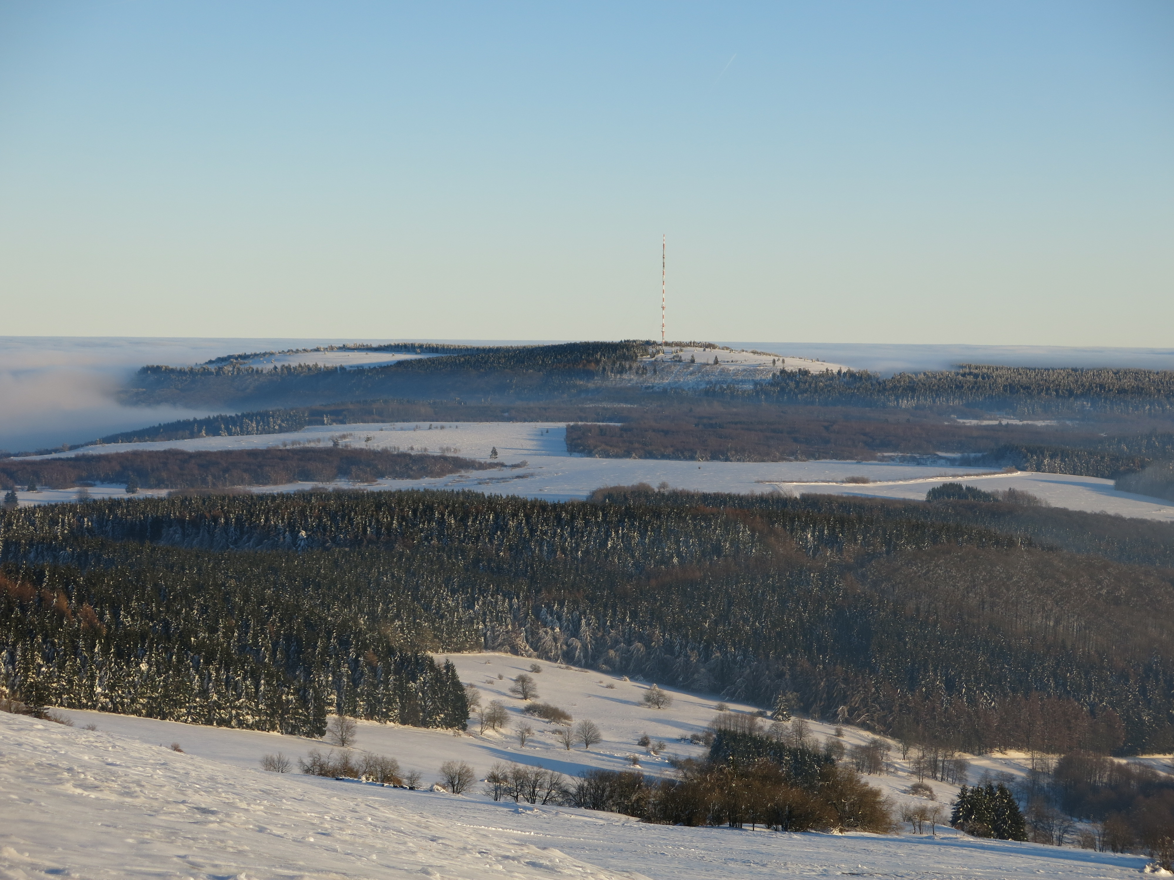 Heidelstein, seen from Wasserkuppe